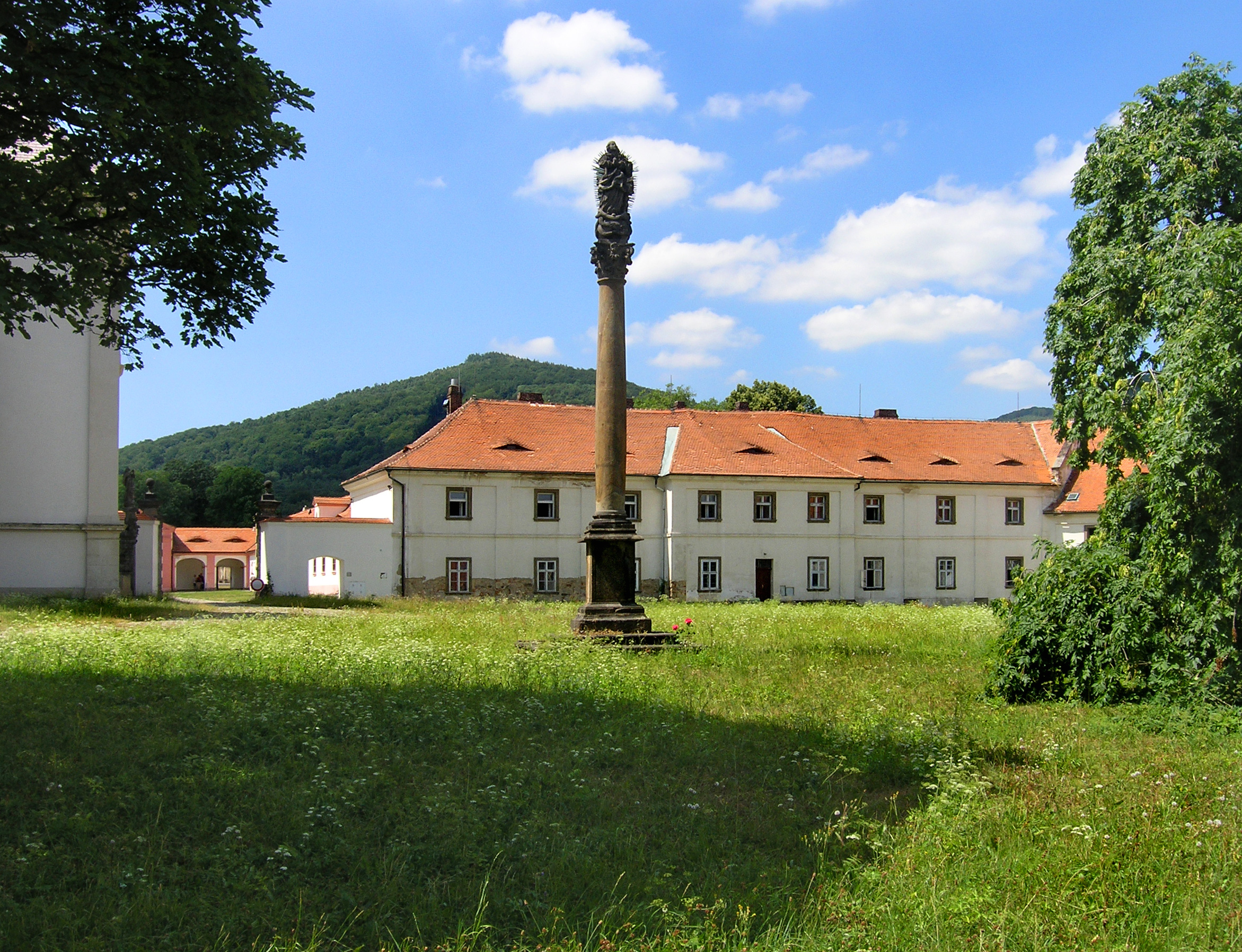 Osek Monastery courtyard in Osek town, Czech Republic